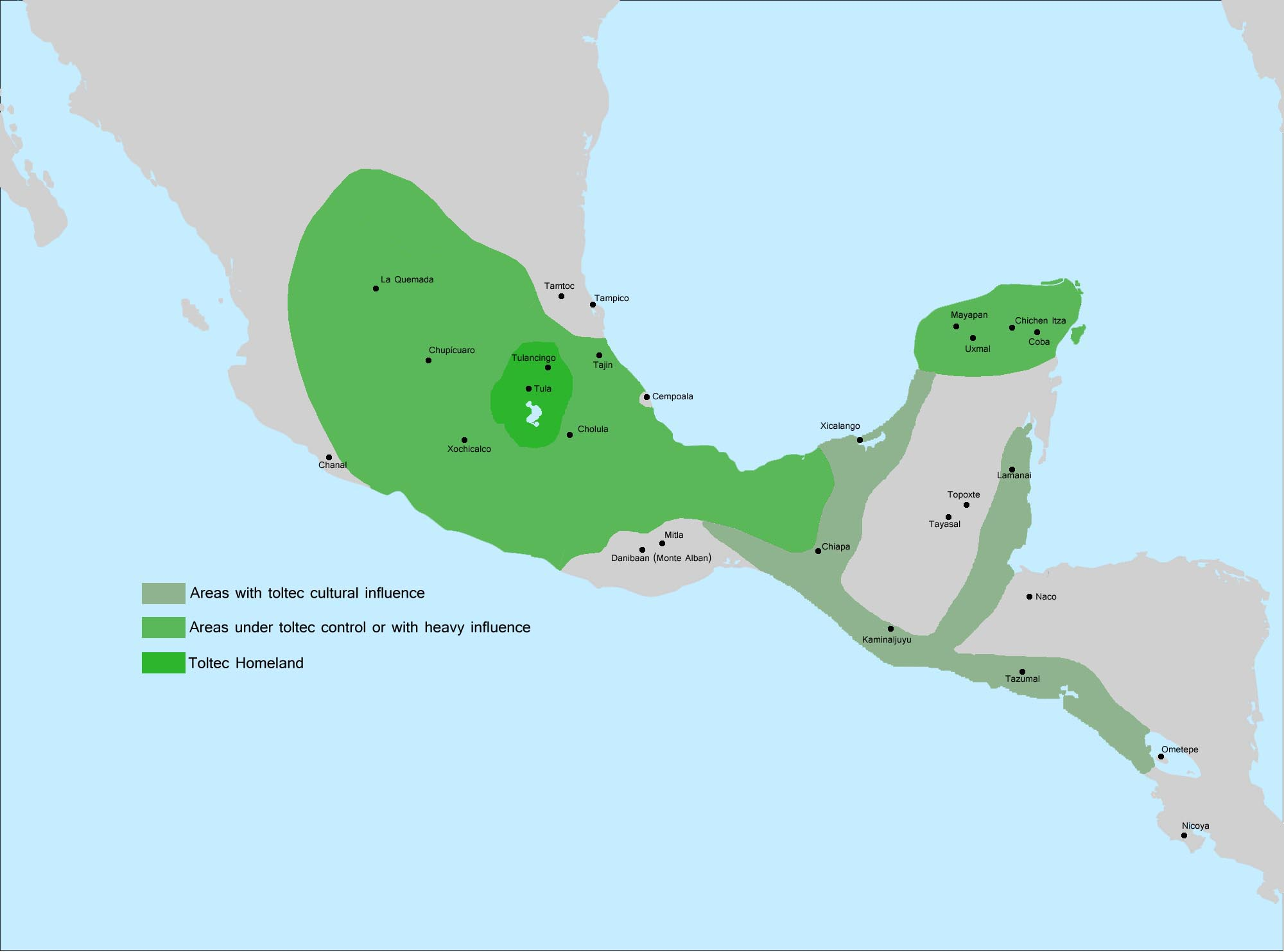 Toltec influence in the mid tenth century